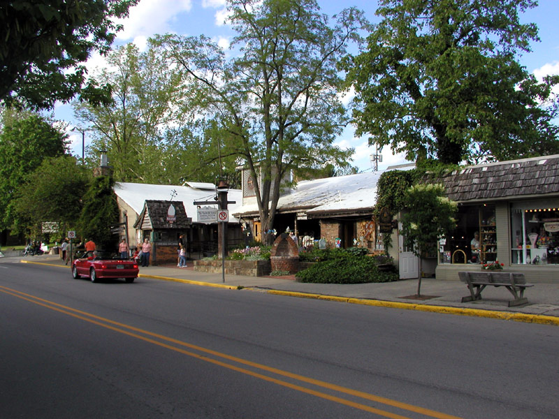 Image showing some of the shops lining Van Buren St. in Nashville, Indiana, the main strip of shops in town. Center in the image is historic Nashville House, shop and restaurant.